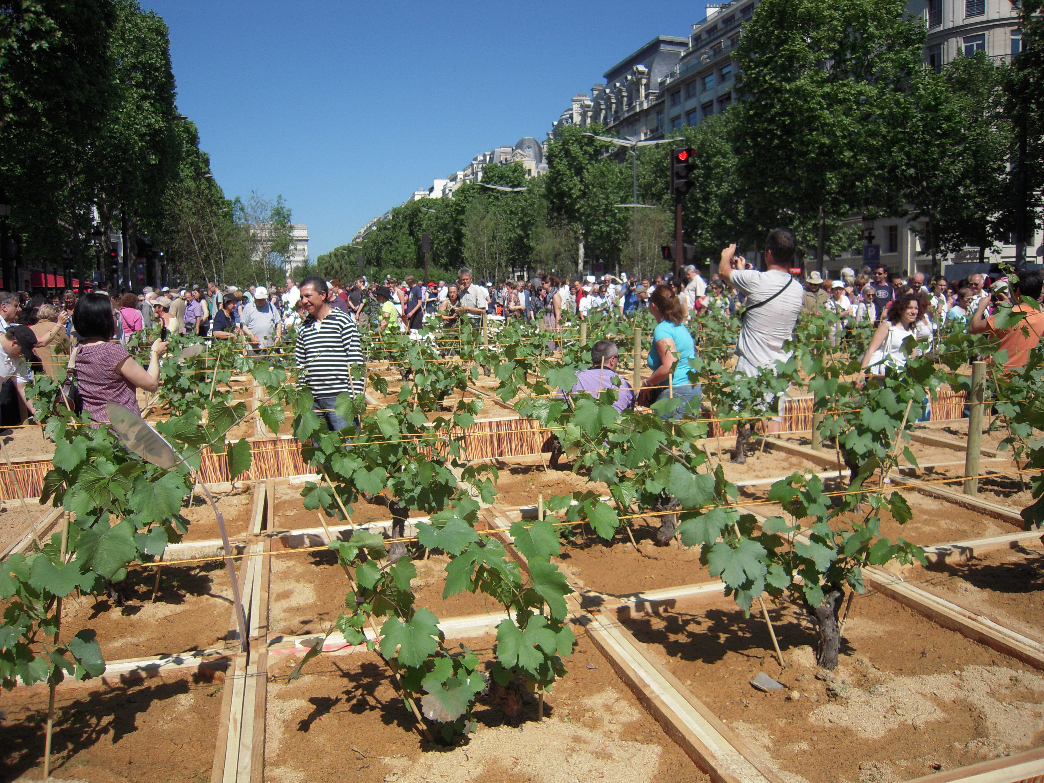 Nature Capitale, Champs Elysees becomes a garden, Paris, May 22-24, 2010.